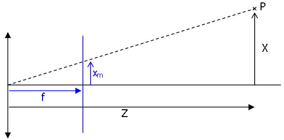 Image points projection with the pinhole model.